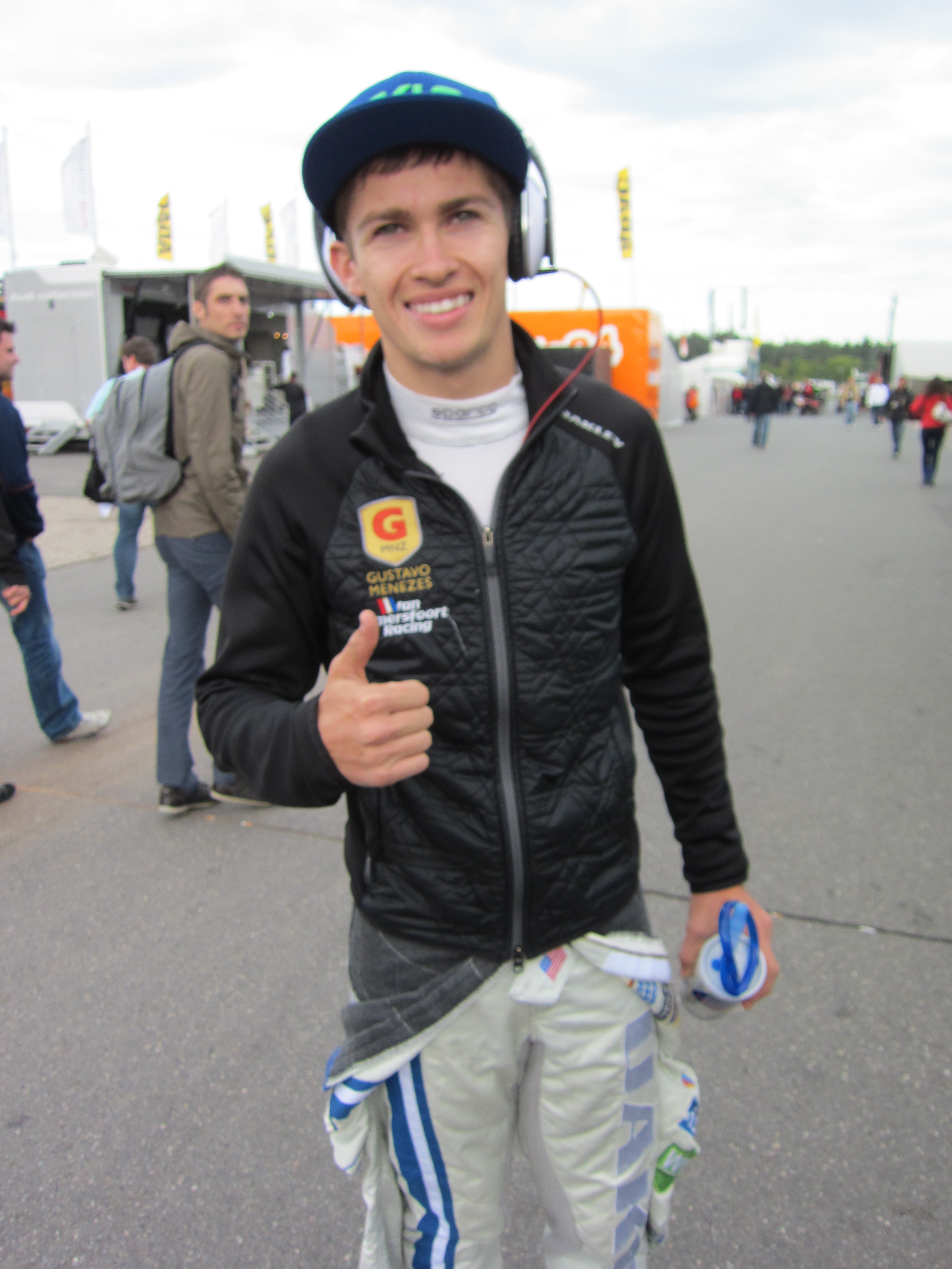 Gustavo Menezes: the photo was taken during 2013's ADAC GT Masters race weekend at Hockenheim